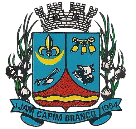 Coat of Arms of Campim Branco, MG, Brazil